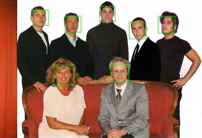 Board of Directors of F.U.S.I.A. 1998 l-r: Ivan Oljelund II, Agnes Källström, H. Magnus Olsson, Miguel Bonett, Jacob Truedson Demitz, Jens O.Z. Ehrs & Sebastian Berggren, as released by image creator F.U.S.I.A. Place: Stockholm, Sweden